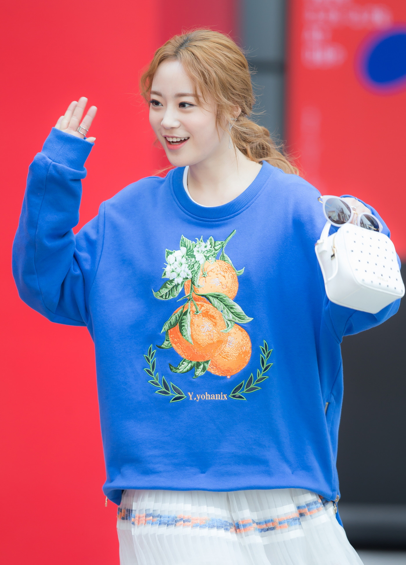 160326 16 F/W 서울패션위크 포토월